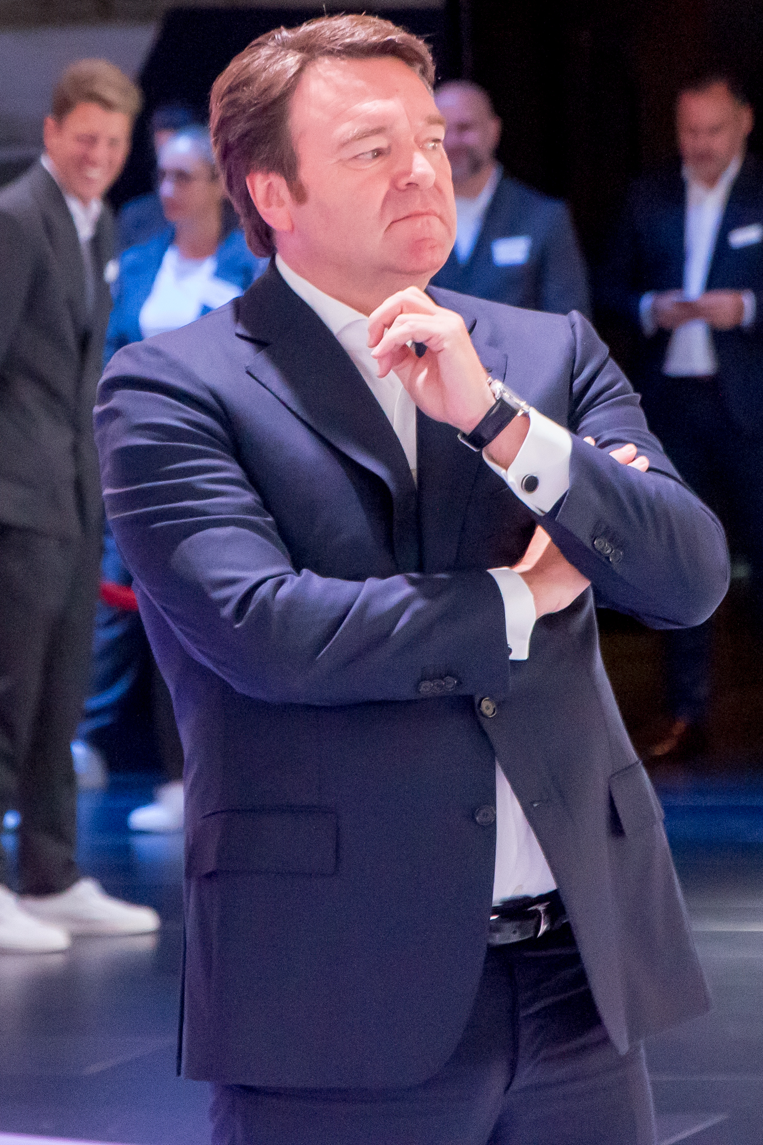 Bram Schot